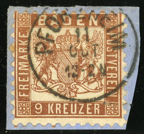 Duchy of Baden 9 kreuzer stamp, issue 1862, cancelled at PFORZHEIM. Michel N°20.